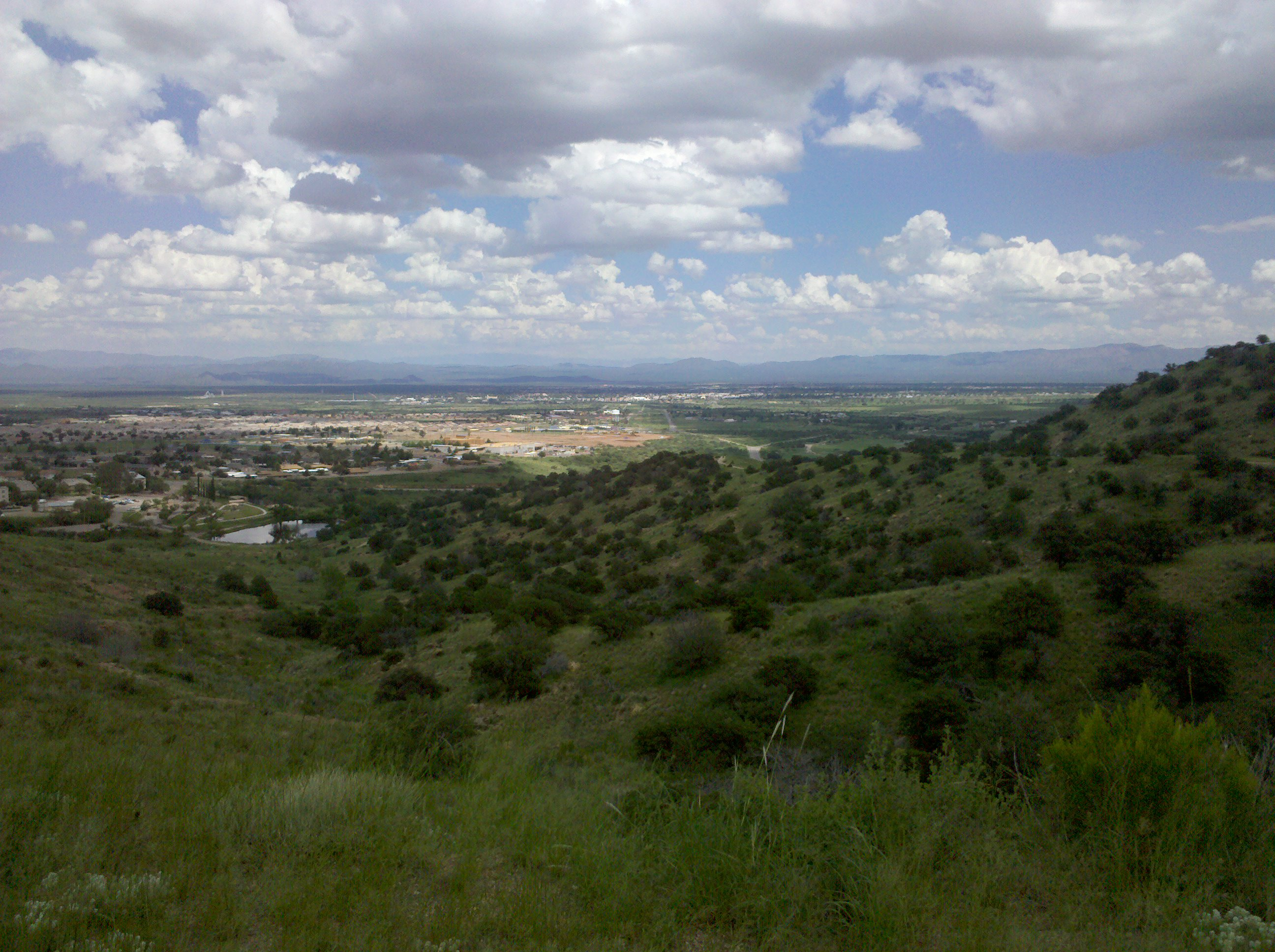 Distant view of Sierra Vista from Fort Huachuca